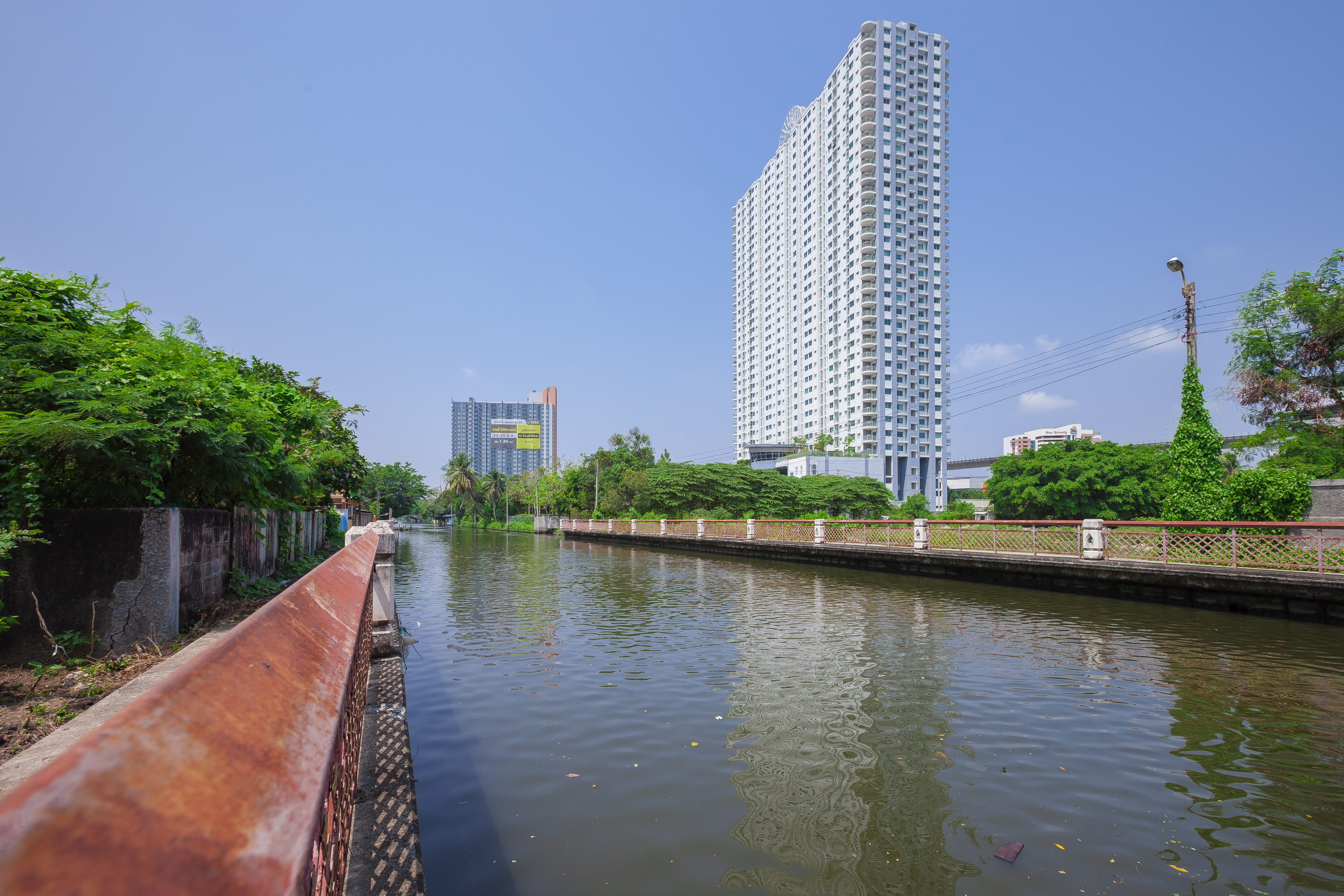 View of Khlong Phasi Charoen near Bang Wa BTS Station.